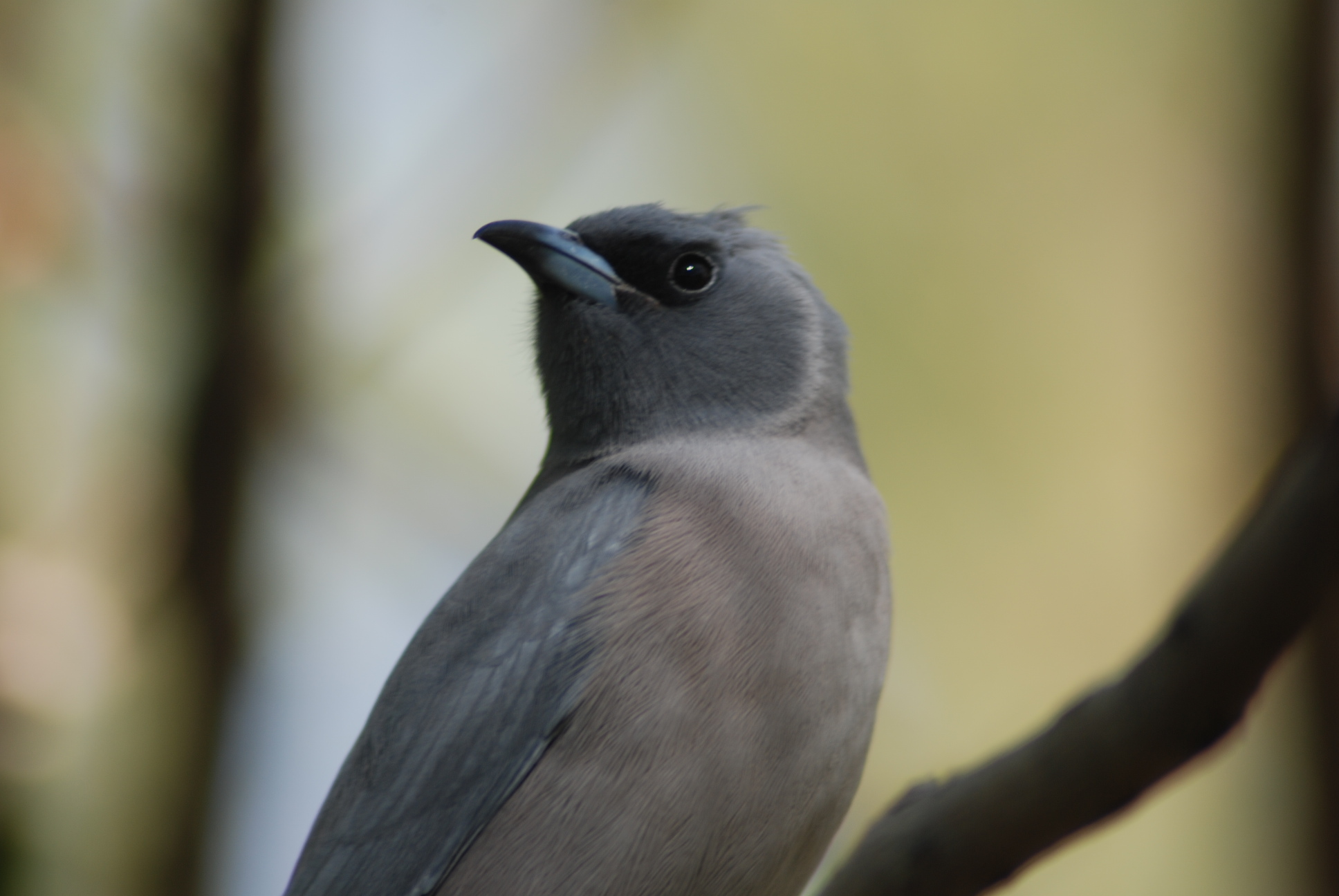 A Masked Woodswallow at Alice Springs Desert Park, Northern Territory, Australia.